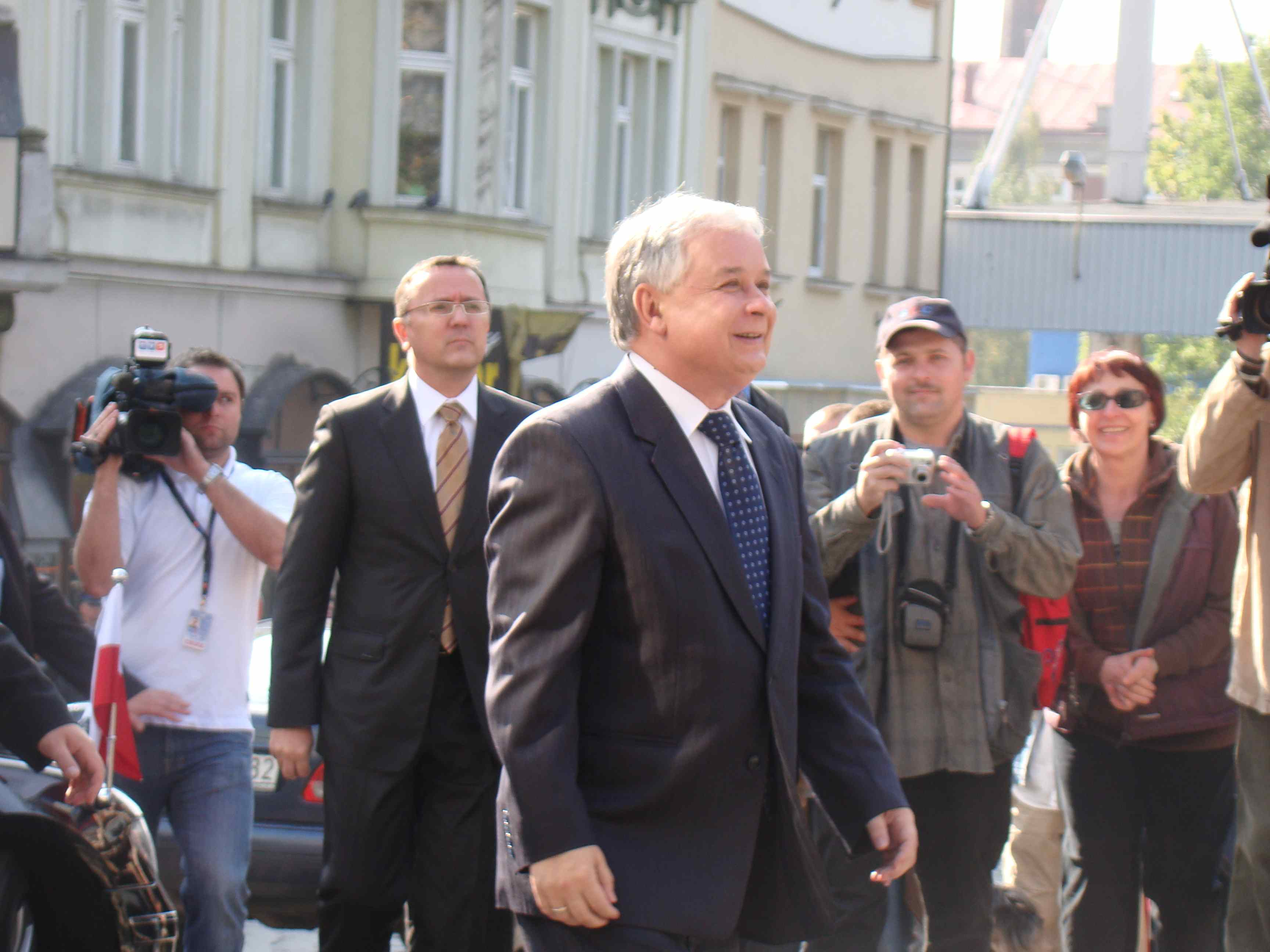 President of Poland Lech Kaczyński.